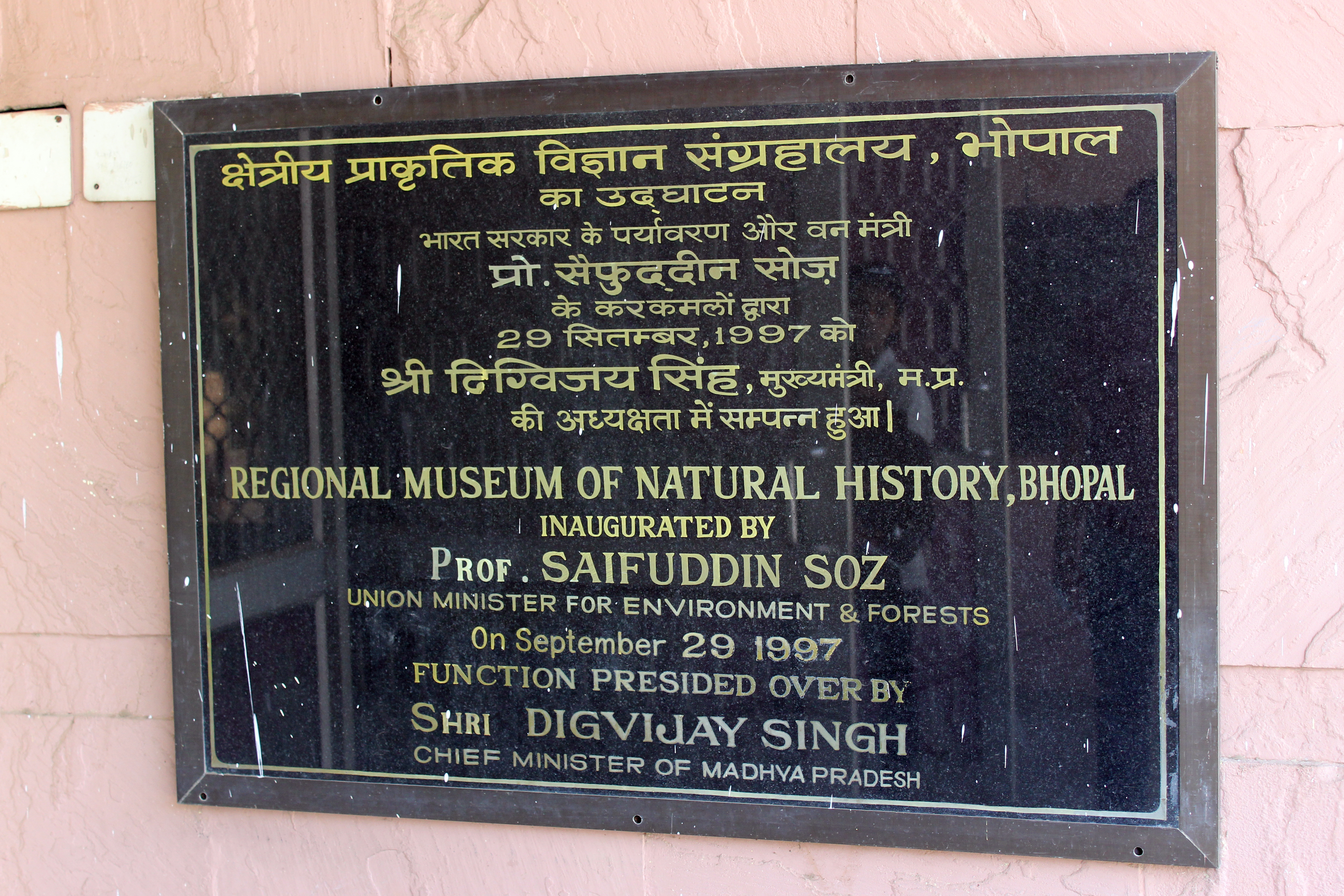 Regional Museum Of Natural History ,Bhopal